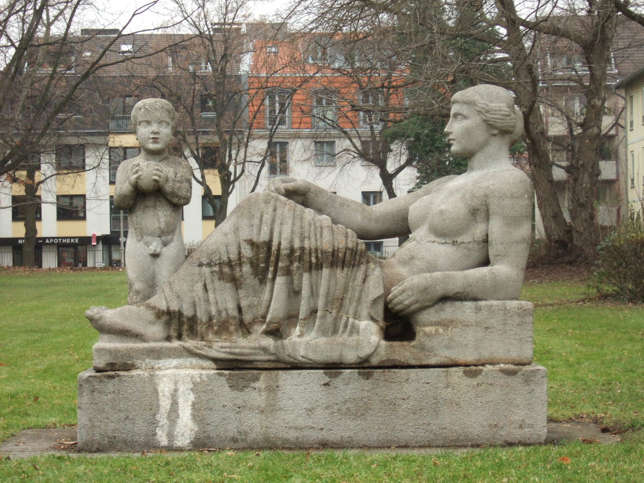 Willy Meller's sculpture of a reclining woman with a child (1950) – in Bonn.